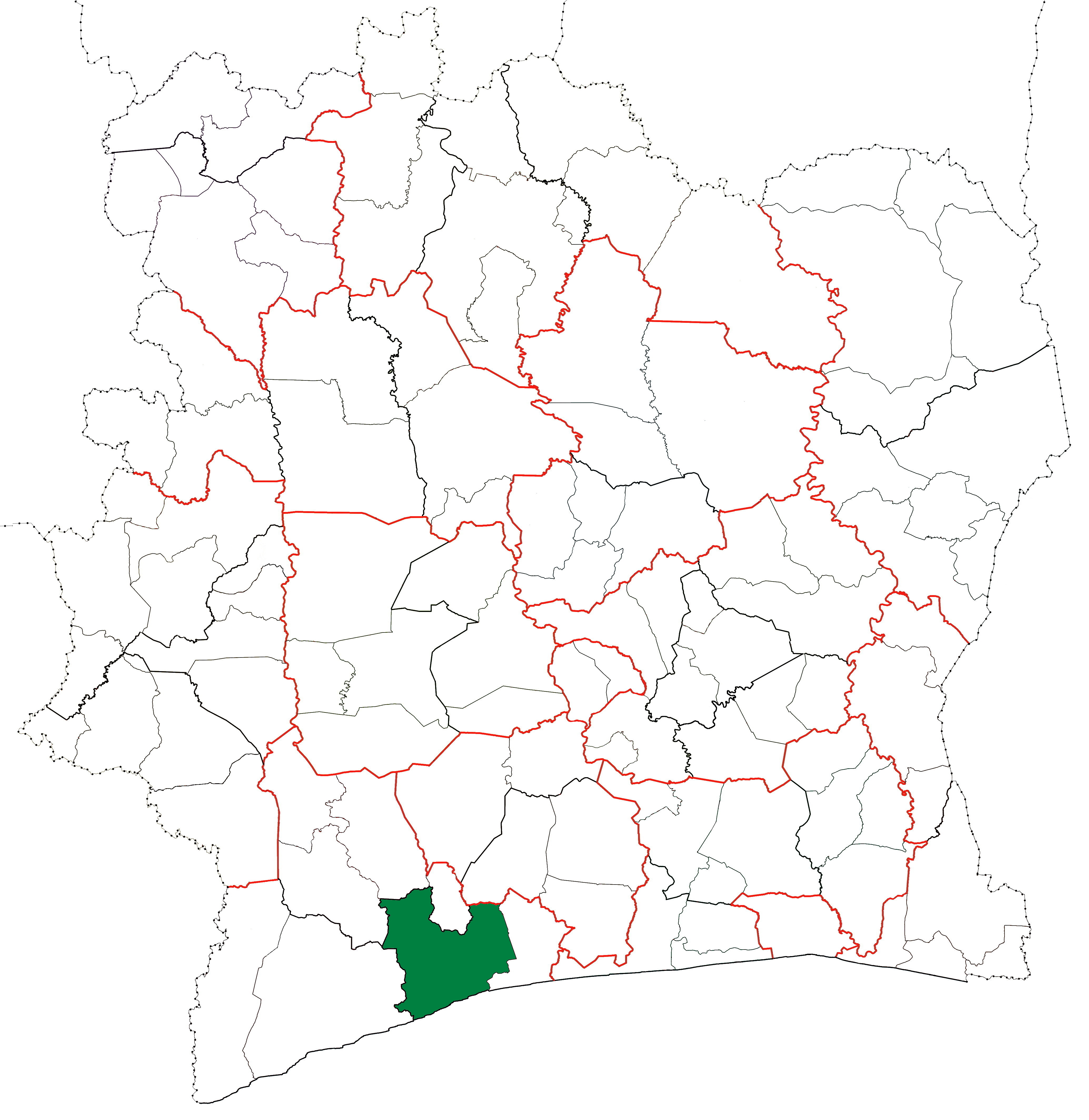 Locator map for Sassandra Department in Côte d'Ivoire.